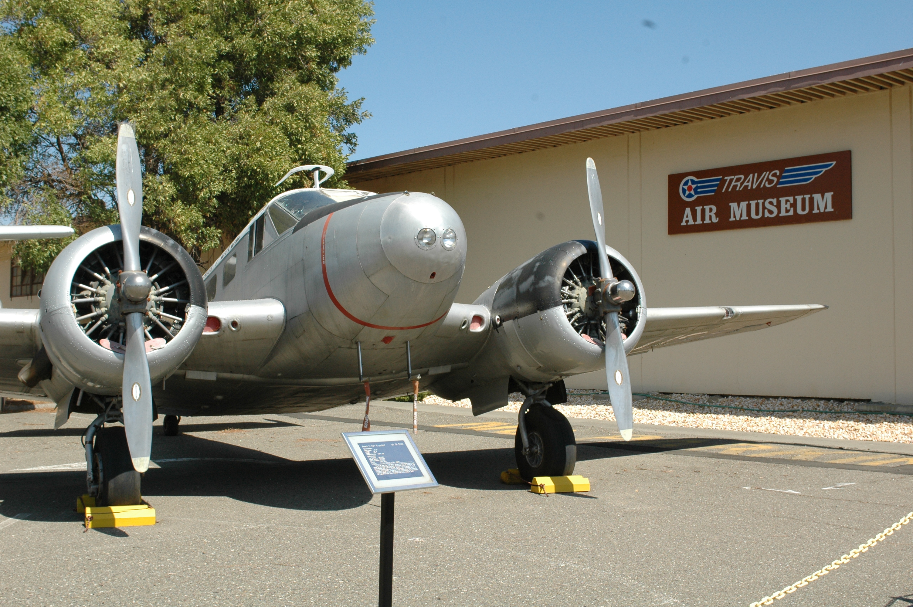 C-45H Expediter on display in front of the Jimmy Doolittle Air & Space Museum entrance